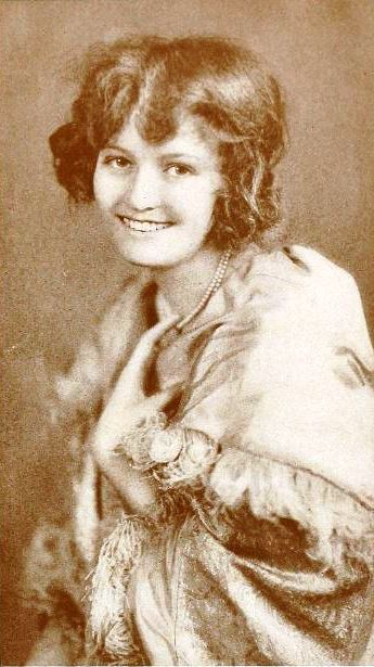 Actress Doris Kenyon promotional for the play The Girl in the Limousine, page 51 of the January 1920 Shadowland.